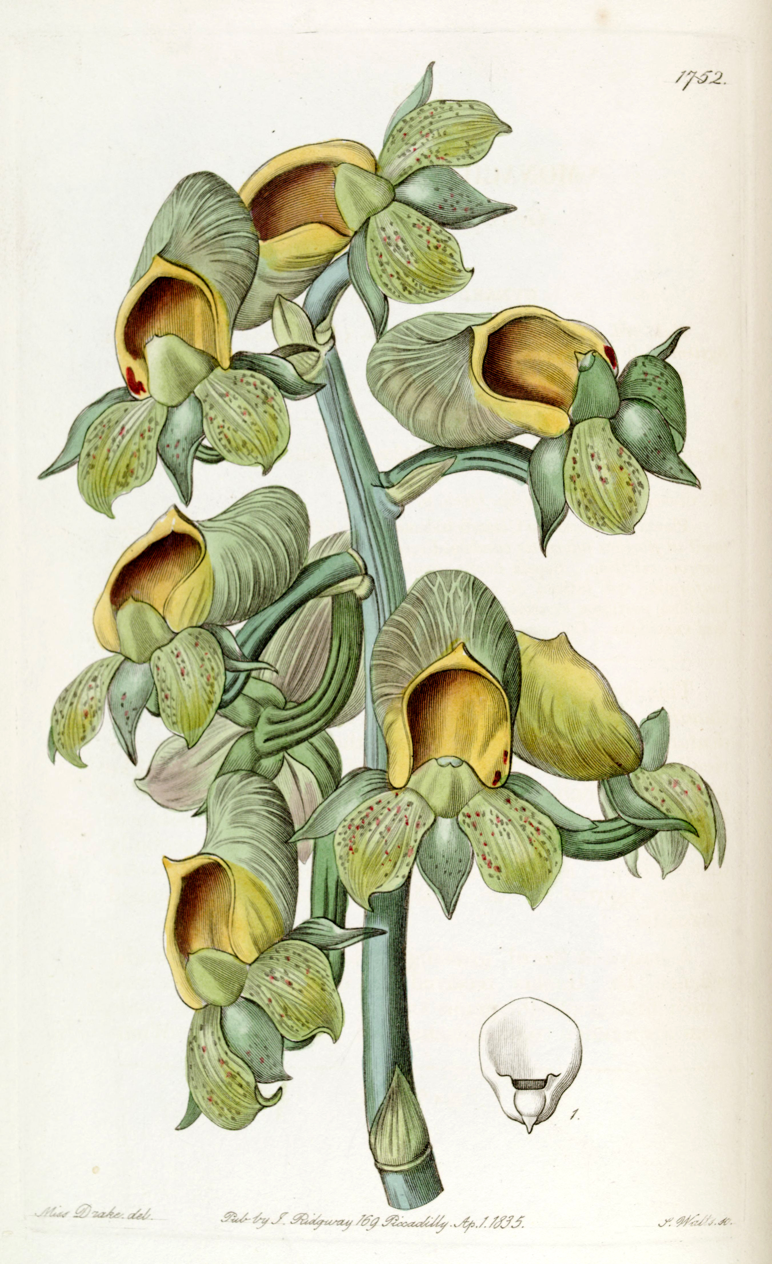 Catasetum cernuum (as syn. Monachanthus viridis)